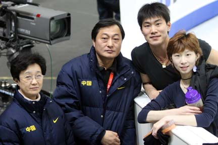 Zhang Dan and Zhang Hao at the boards with their coach Yao Bin at the 2007-2008 Grand Prix Final.